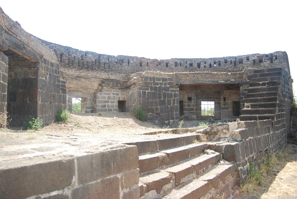 Ahmednagar fort walls